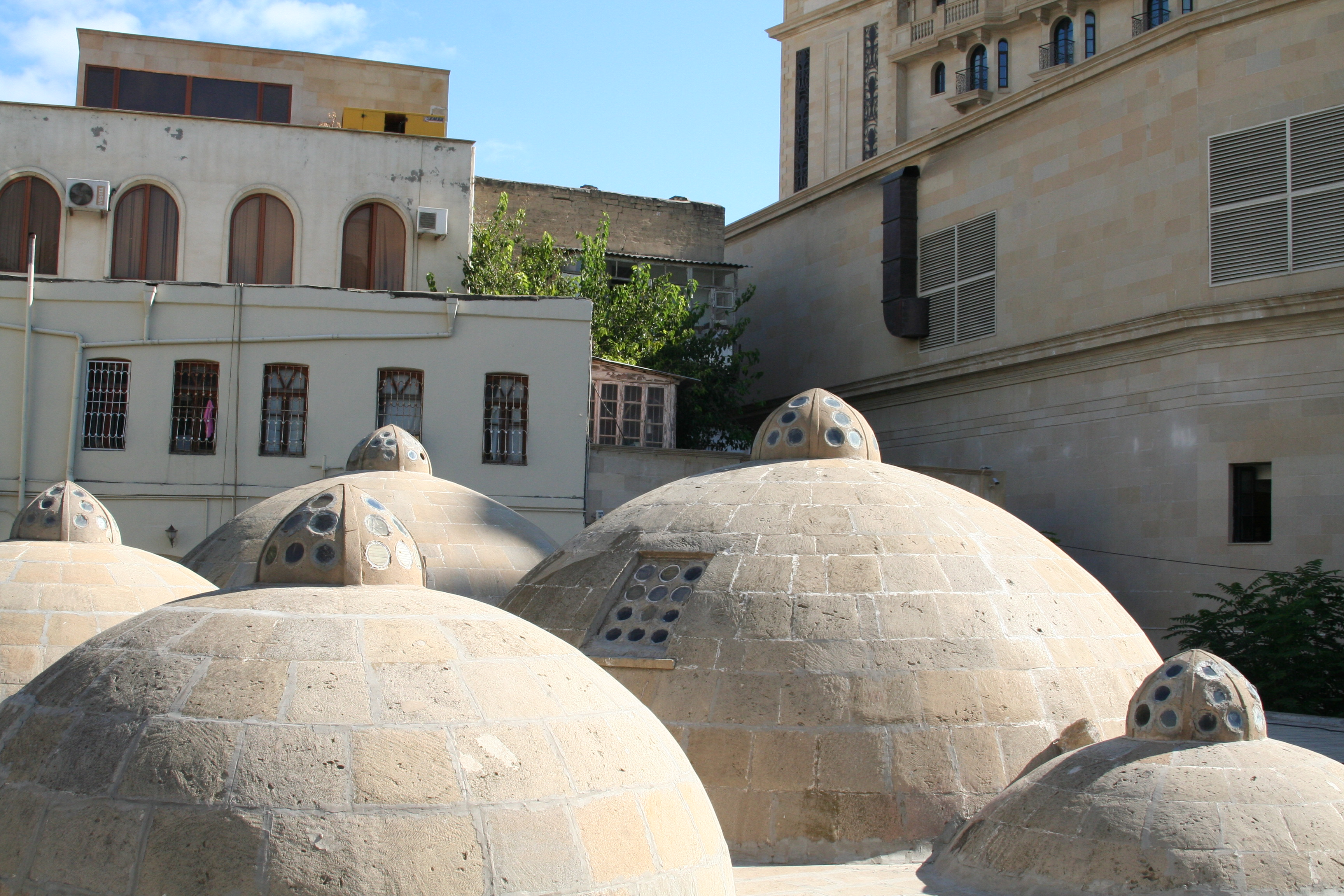 Gasimbey bath